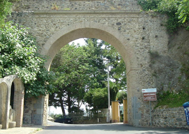 Arch leading into the Italian town of Maida